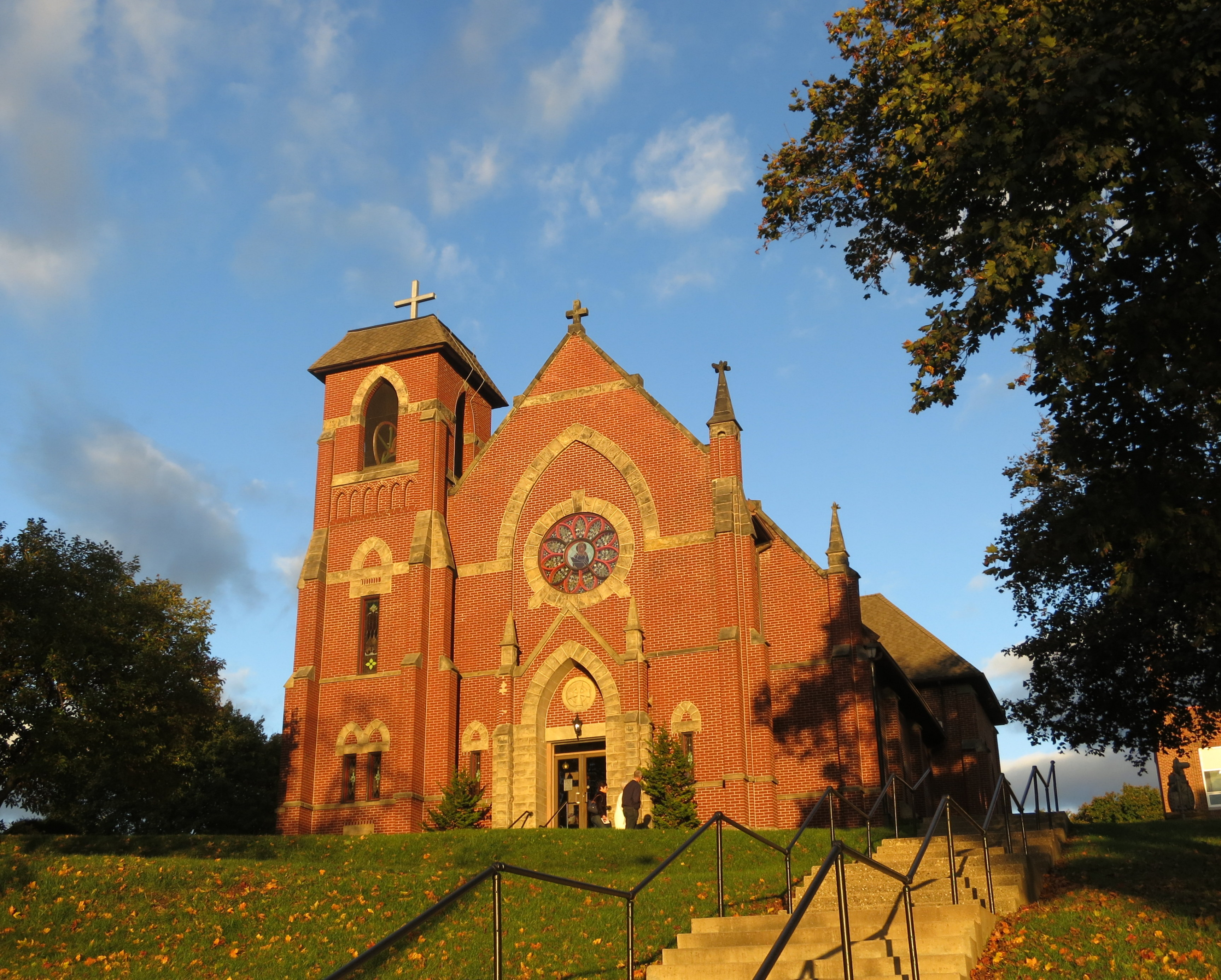 Church of the Sacred Heart (Coschocton, Ohio) - forty five minutes before sunset